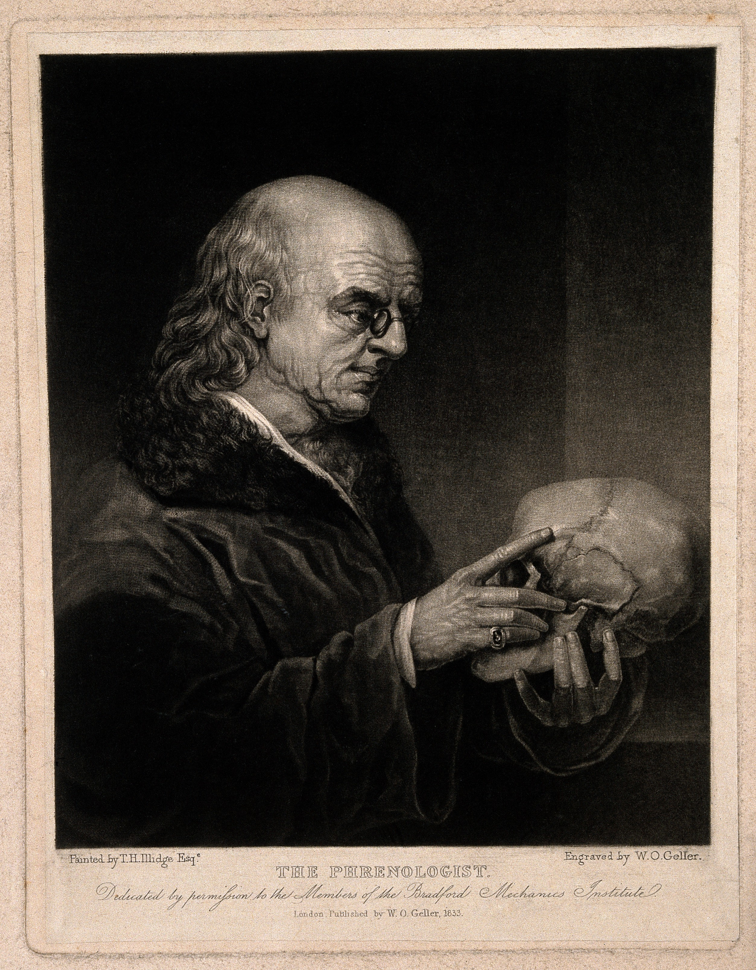 A bald phrenologist with a large forehead examining a skull, in a 'vanitas' pose. Mezzotint by W.O. Geller, 1833, after T.H. Illidge. Iconographic Collections Keywords: William Overend Geller; Head; Thomas Henry Illidge; Bradford Mechanics Institute (England).; Phrenology